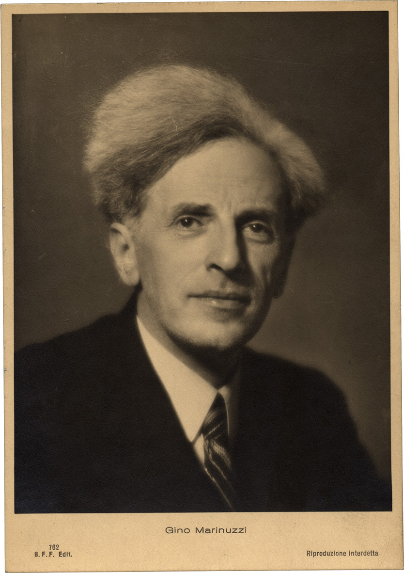 Portrait of Gino Marinuzzi, composer (1882-1945). Photo by unknown, before 1945.